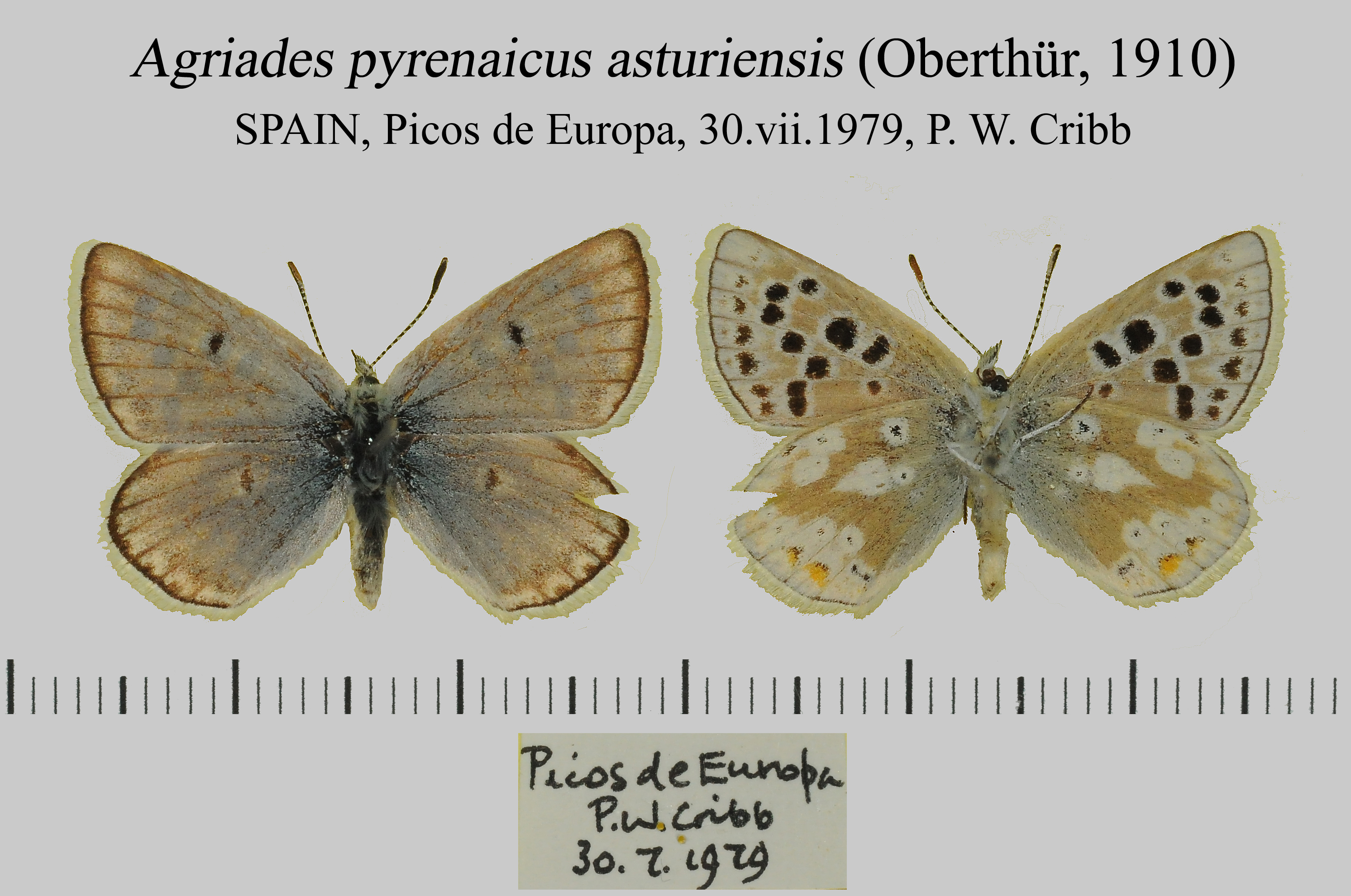 Agriades pyrenaicus asturiensis male, Spain, Picos de Europa, Alan Cassidy photo.